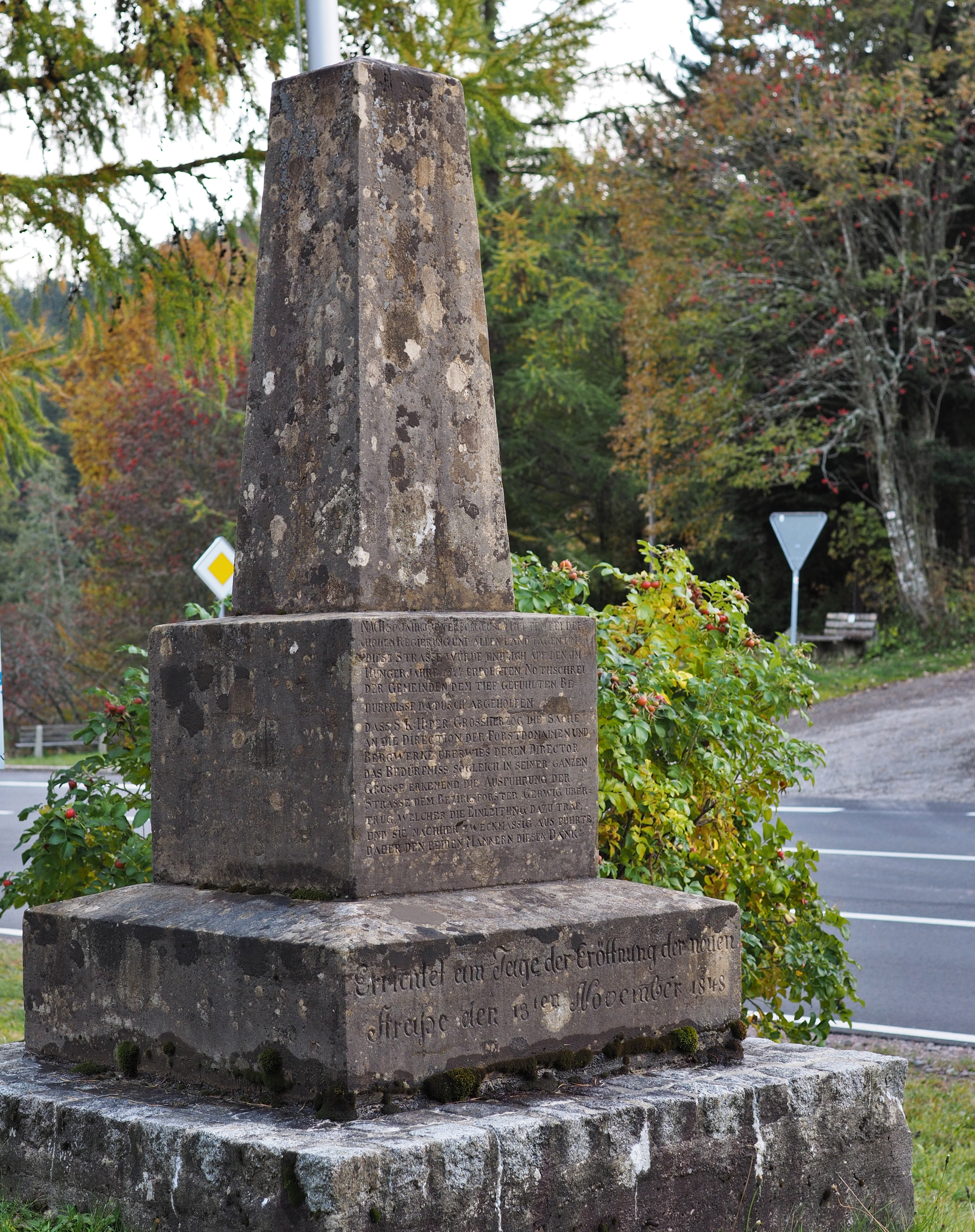 Western face of obelisk at Notschrei pass, Black Forest, Germany